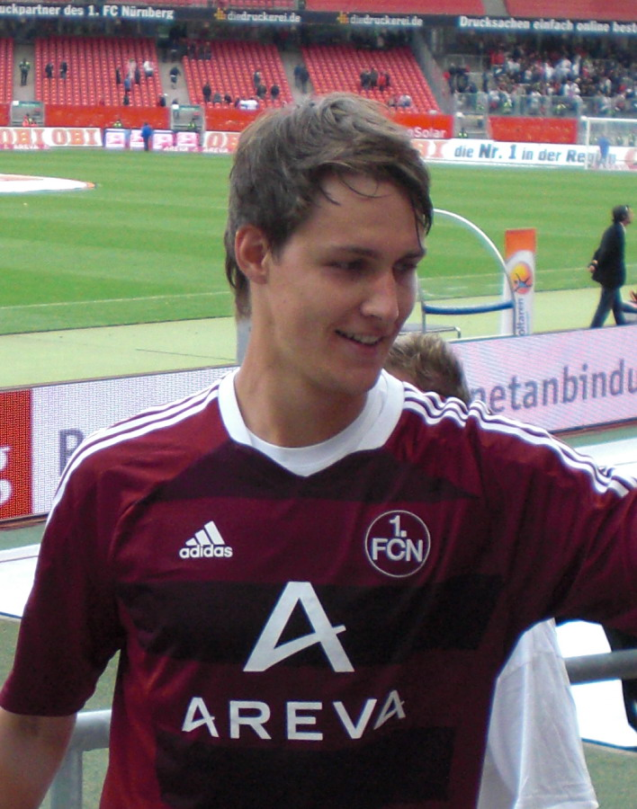 Philipp Wollscheid, football player for German side 1. FC Nürnberg, 2011/12 season